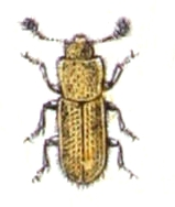 Anommatus duodecimstriatus, from Calwer's Käferbuch, Table 14, Picture 35. Taxonomy was updated to 2008, using mostly the sites Fauna Europaea and BioLib. Please contact Sarefo if the determination is wrong!